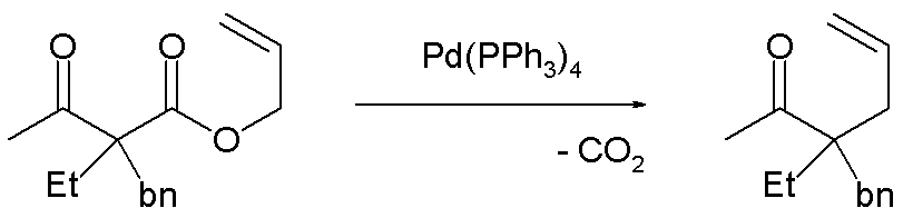 Decarboxylative_allylation_mechanistic